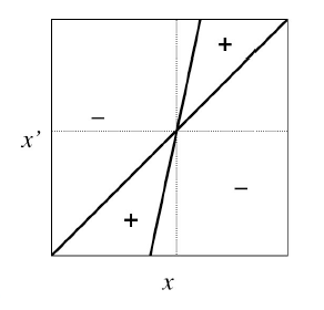 PIP JArdin d'Eden